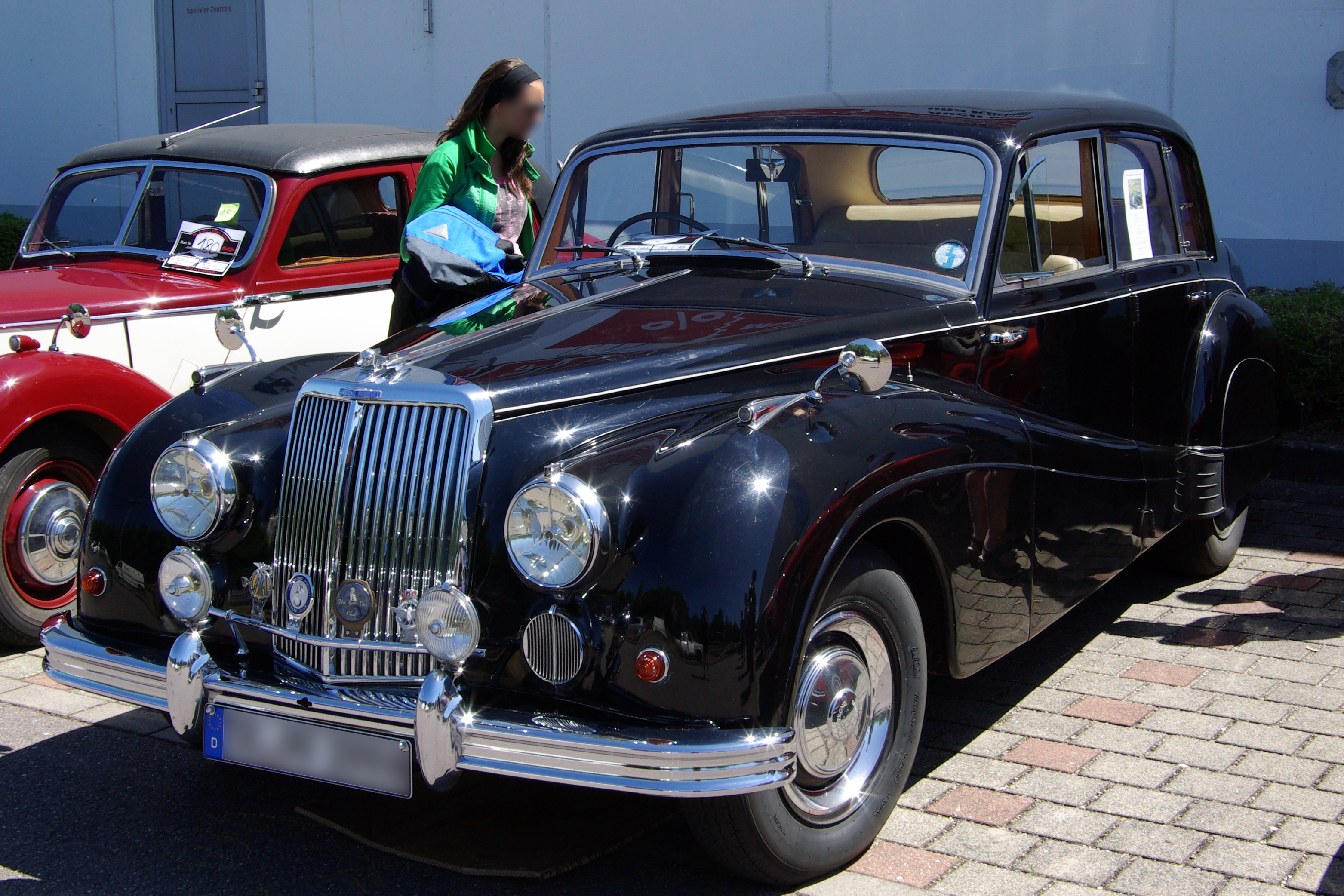 Armstrong Siddeley Sapphire 346, photographed at "Internationales Konzer Oldtimer-Treffen", 18. Juli 2010